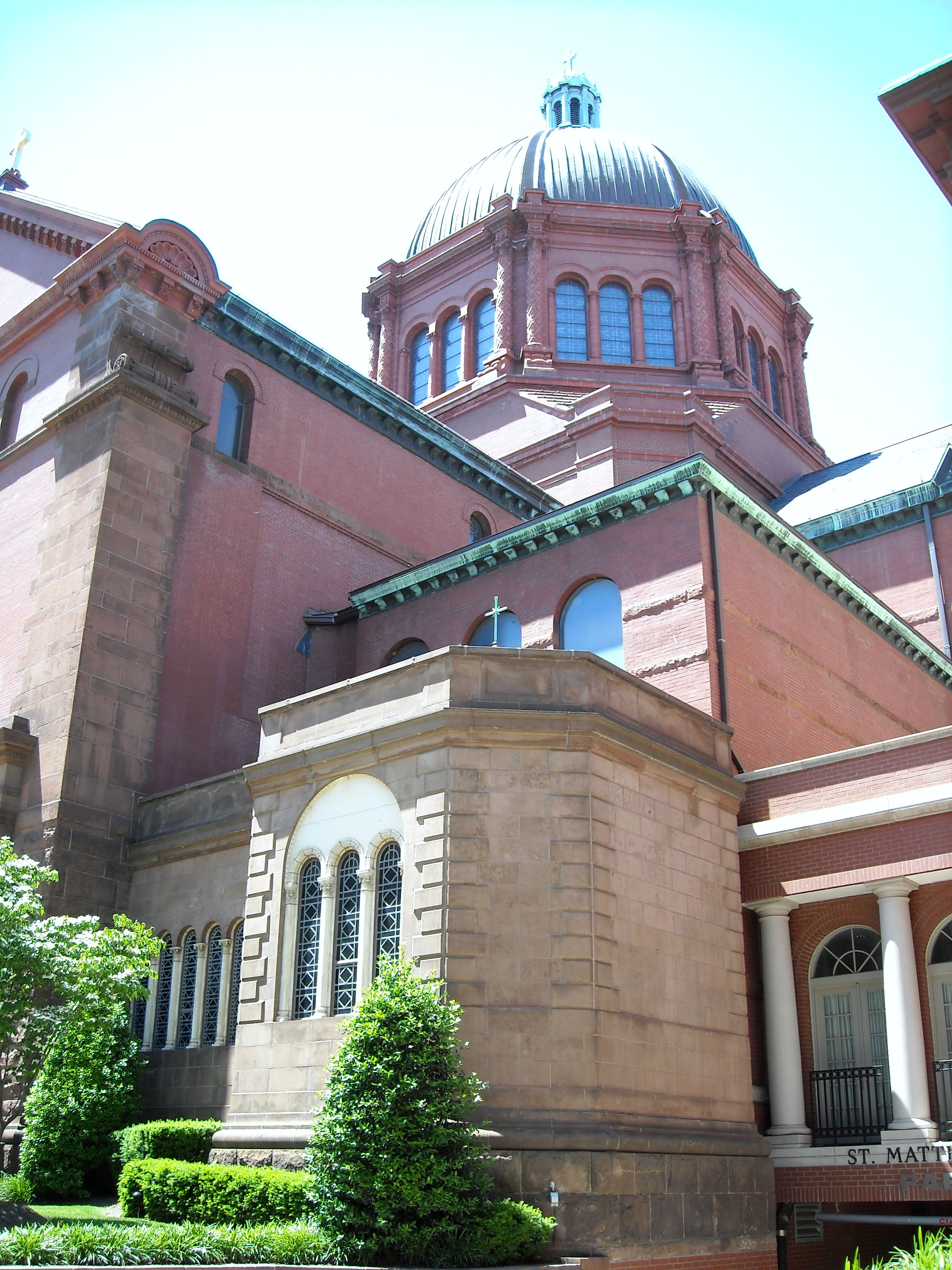 St. Matthew's Cathedral in Washington, D.C. The building is listed on the National Register of Historic Places